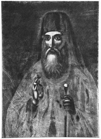 Ecumenical Patriarch Ieremias I